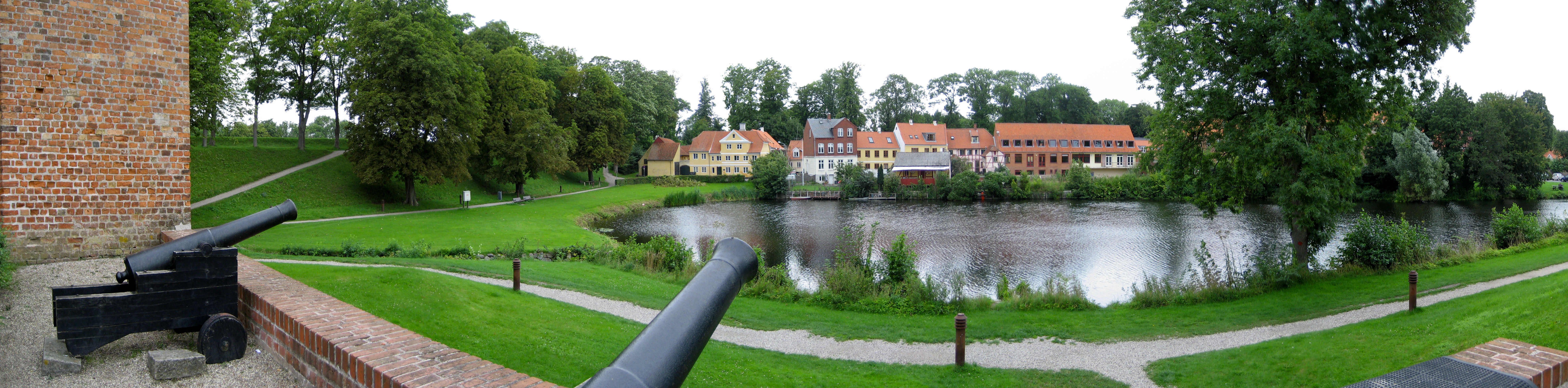 View from Castle, Nyborg